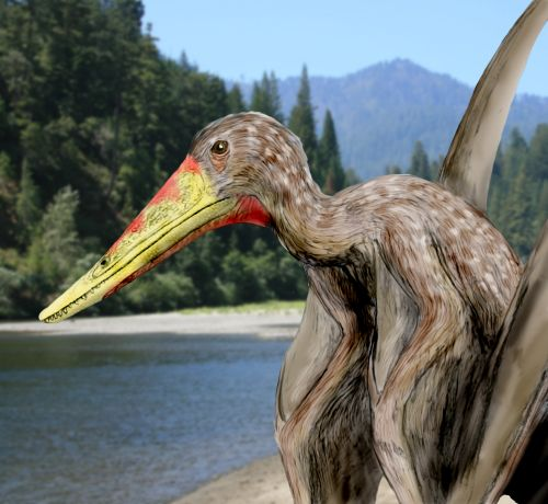 Nurhachius